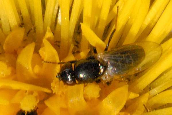 Psilopa nitidula from Commanster, Belgian High Ardennes .